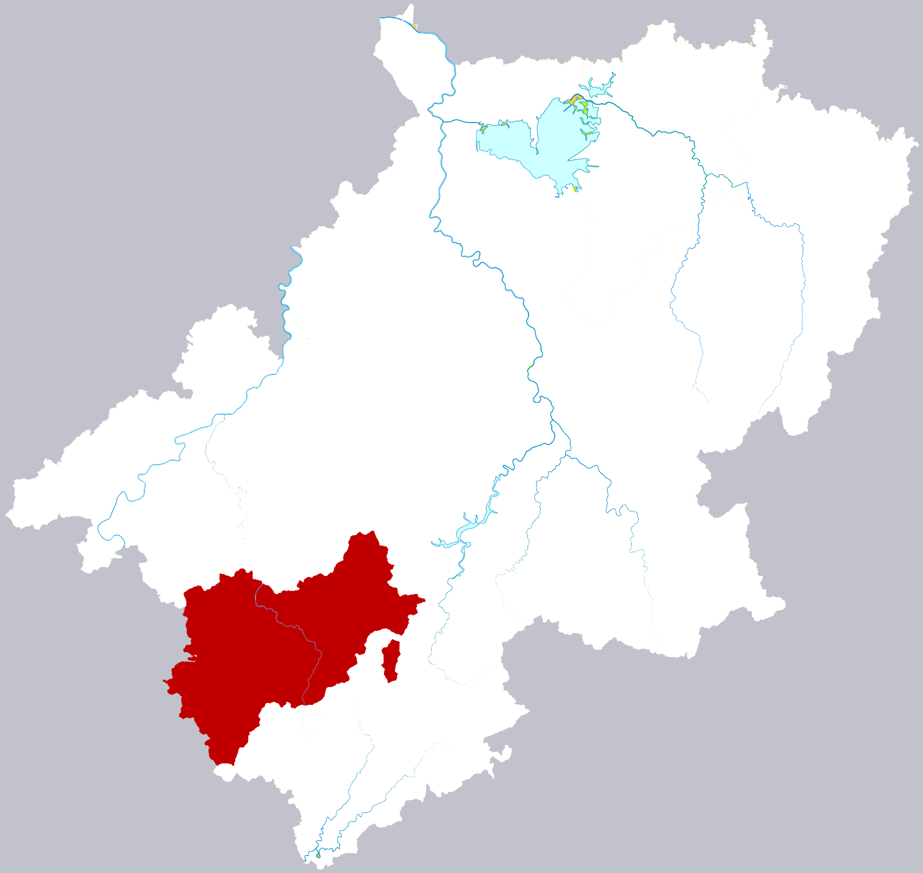 Location of Jingde county in Xuancheng city, China